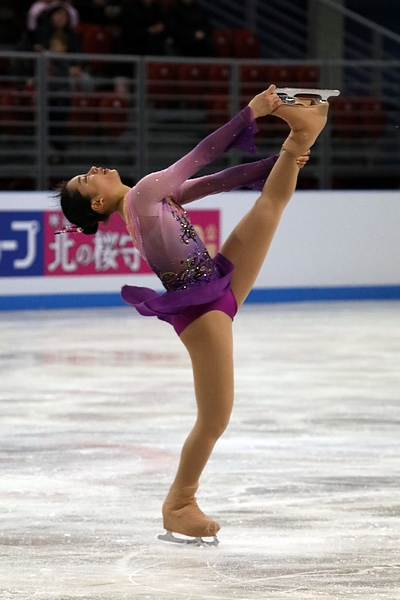 Photos – Junior World Championships 2018 – Ladies (Mako YAMASHITA JPN – Bronze Medal)